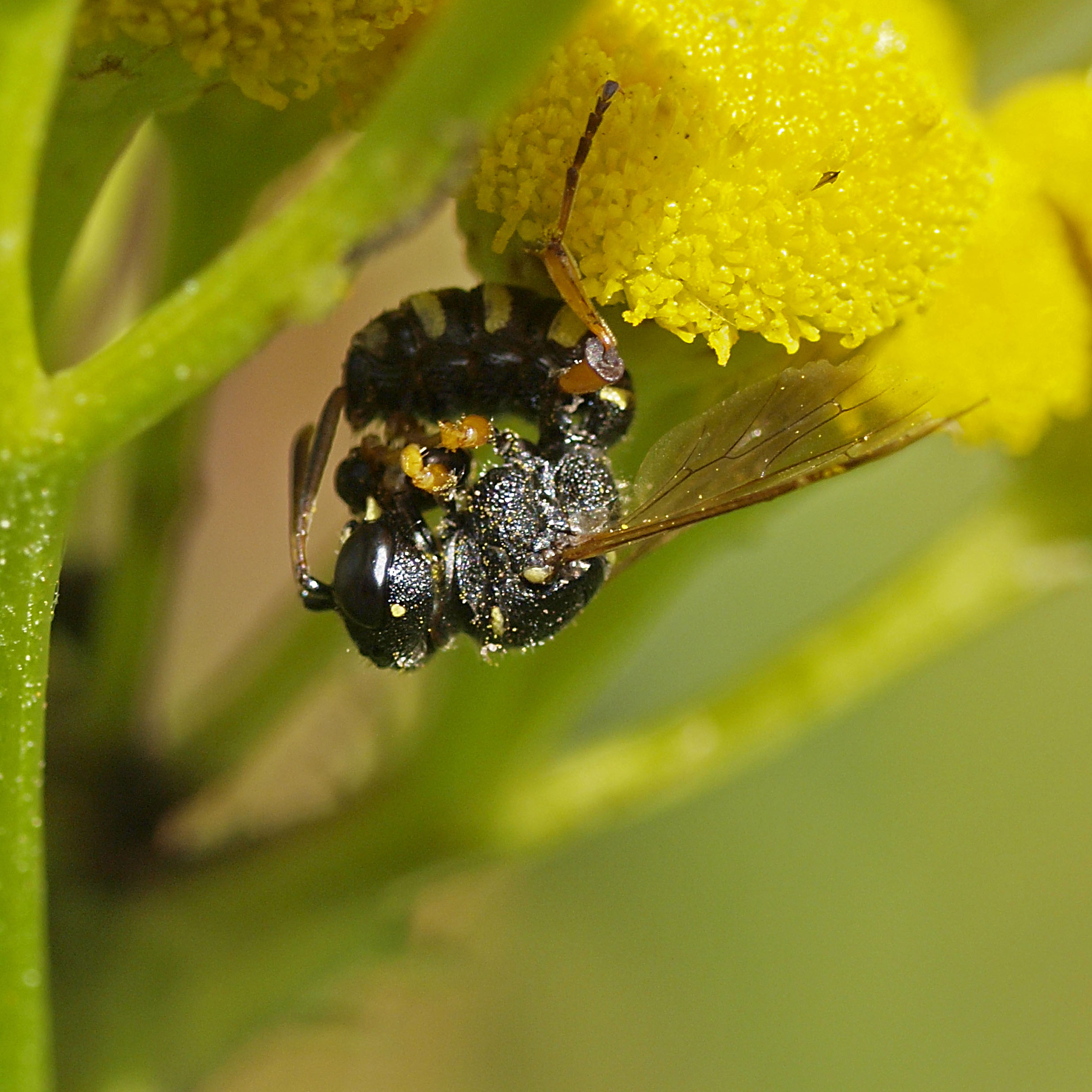 This female digger wasp has just caught a small pollen beetle. The beetle is food for the wasps larvae, not for the wasp itself.